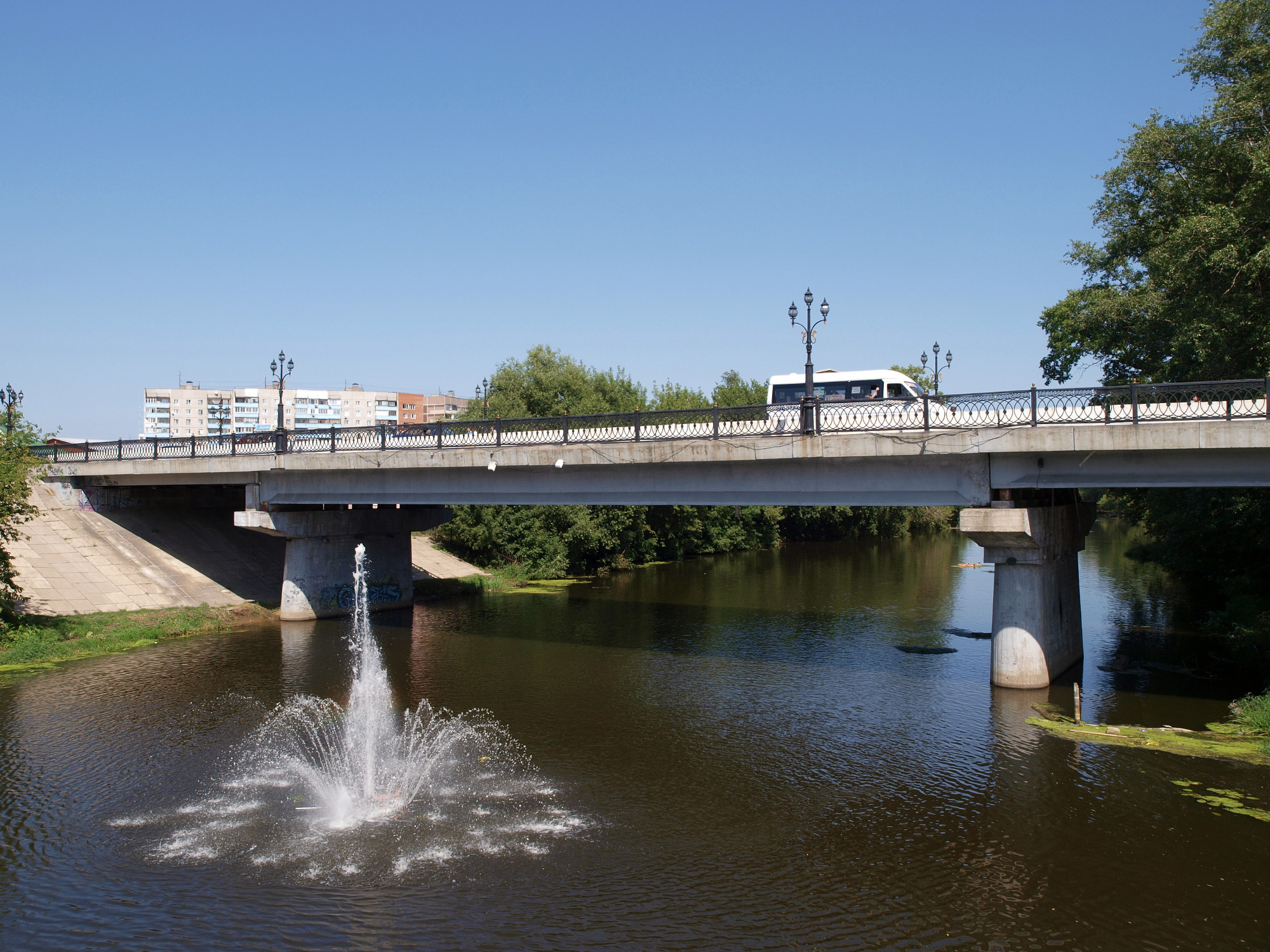 Bridge over the Klyazma in downtown Noginsk.